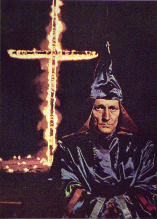 Title: Robert M. Shelton, Imperial Wizard Physical description: 1 print ; (poster format) Notes: Published in: Prop art / Gary Yanker. New York : Darien House, 1972.; Title devised by Library staff.; Gift; Gary Yanker; 1975-1983.